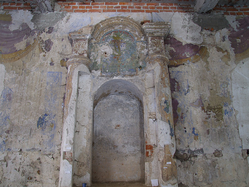 Small Synagogue in Kraśnik